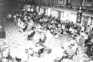 First "Gini" Conference, Chicago, Illinois First "GINI" conference, 1981. PHI archives.